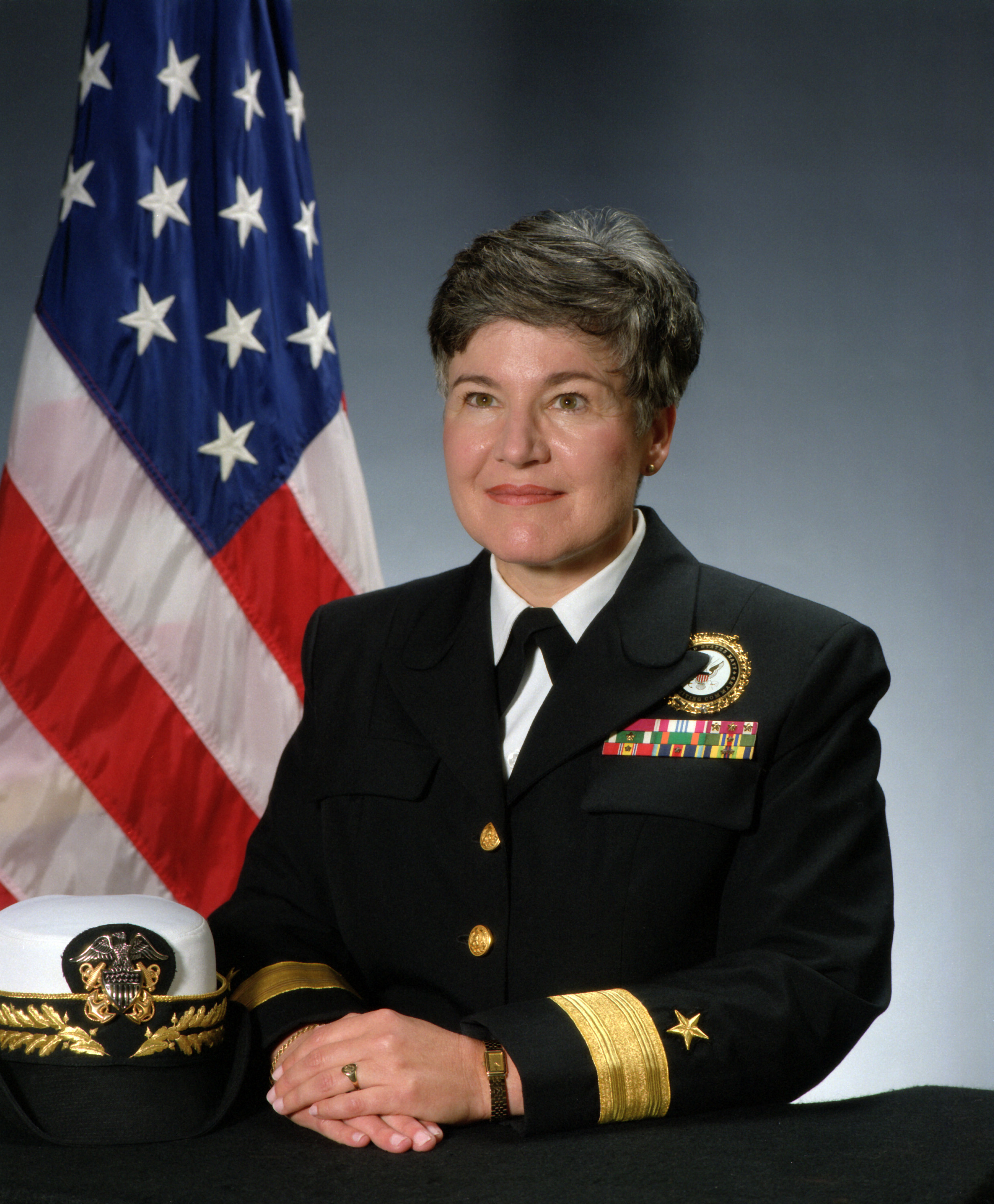 Rear Admiral (lower half) Barbara E. McGann, USN